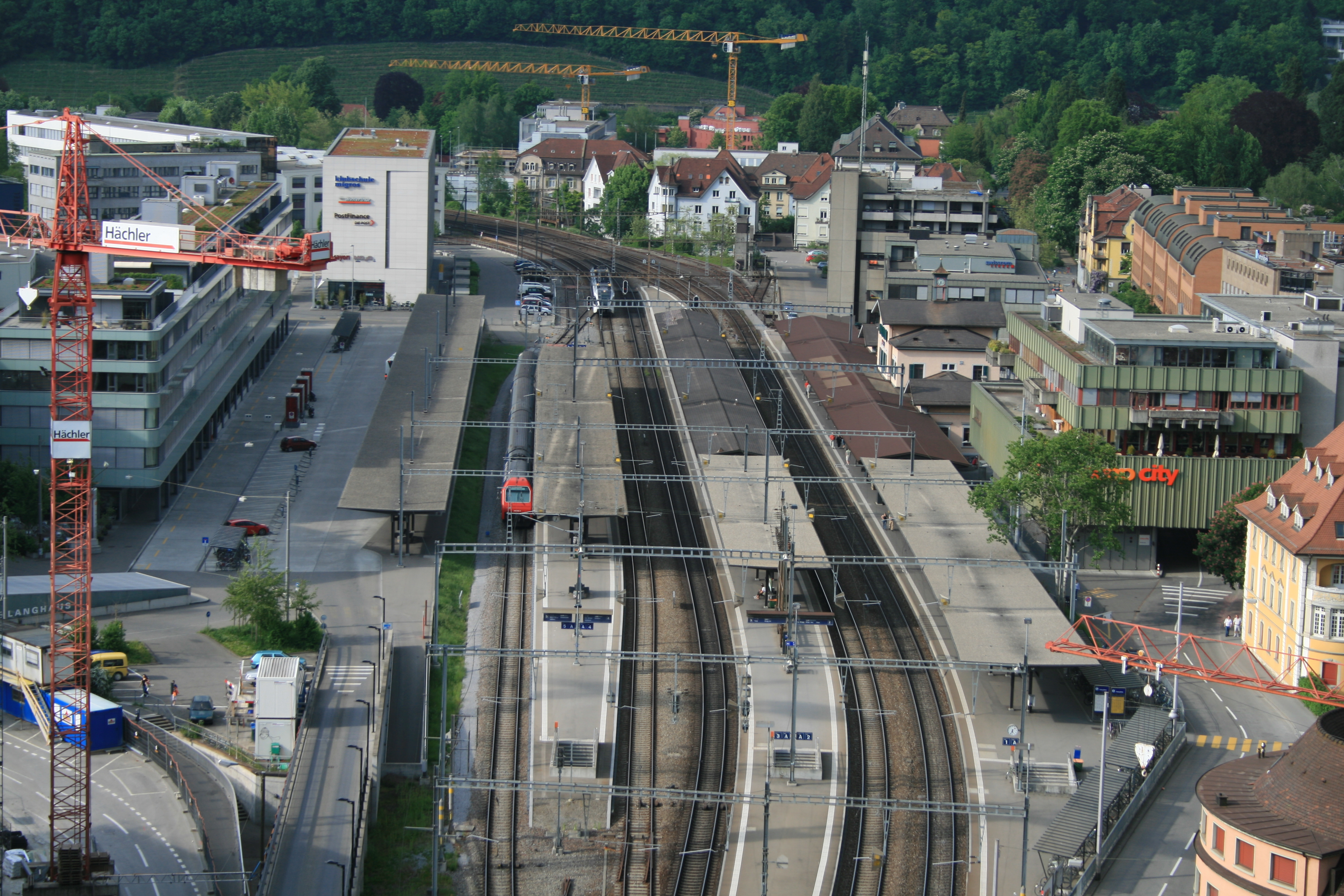 The railwaystation of Baden AG, Switzerland